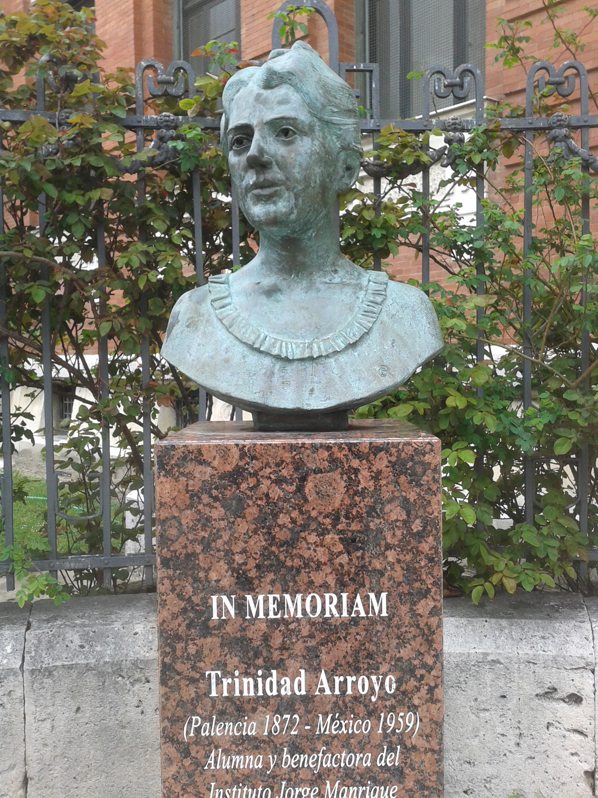 Bust of spanish physician and academic Trinidad Arroyo (1872-1959) in Palencia.